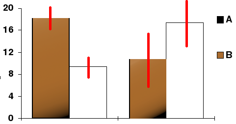 The scientific diagram with the computed confidence intervals.